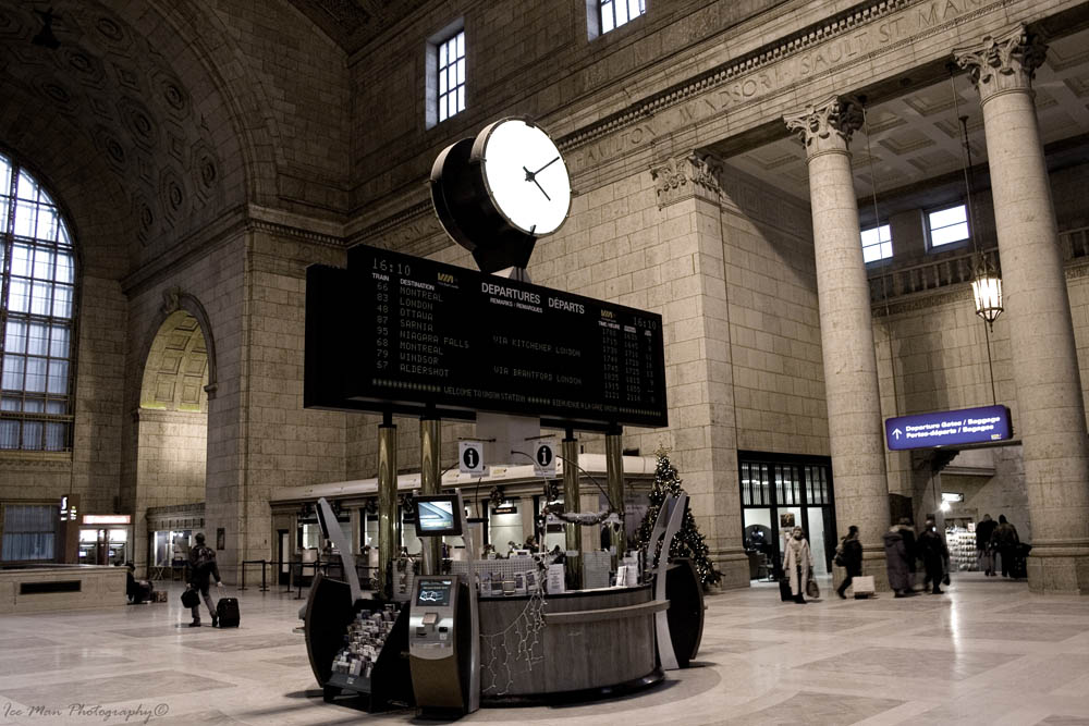 Grand Hall at Union Station, Toronto, Canada